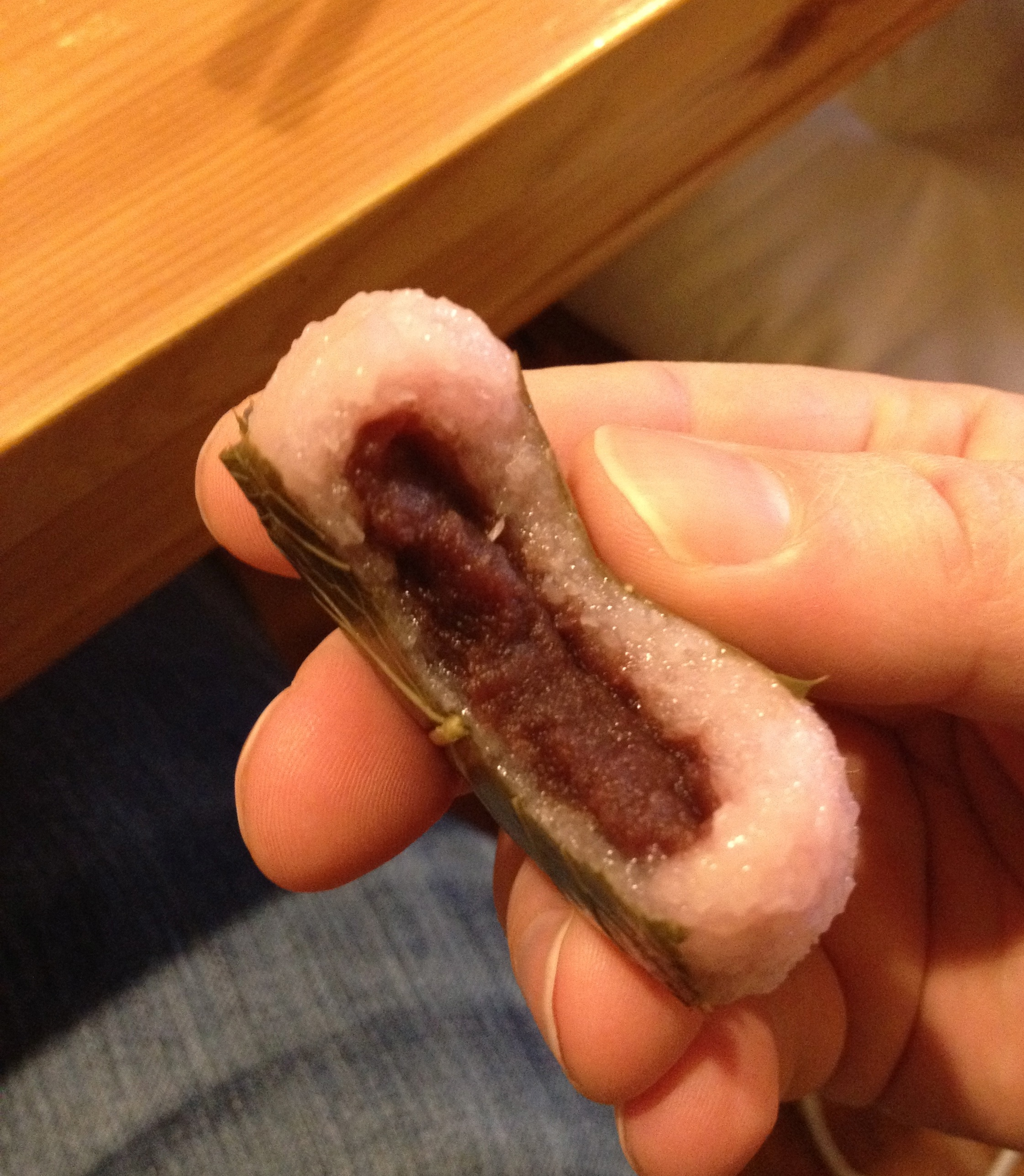 A few of the interior of a sakuramochi pastry, showing the red-bean paste inside. Traditionally eaten around Hinamatsuri in Japan.